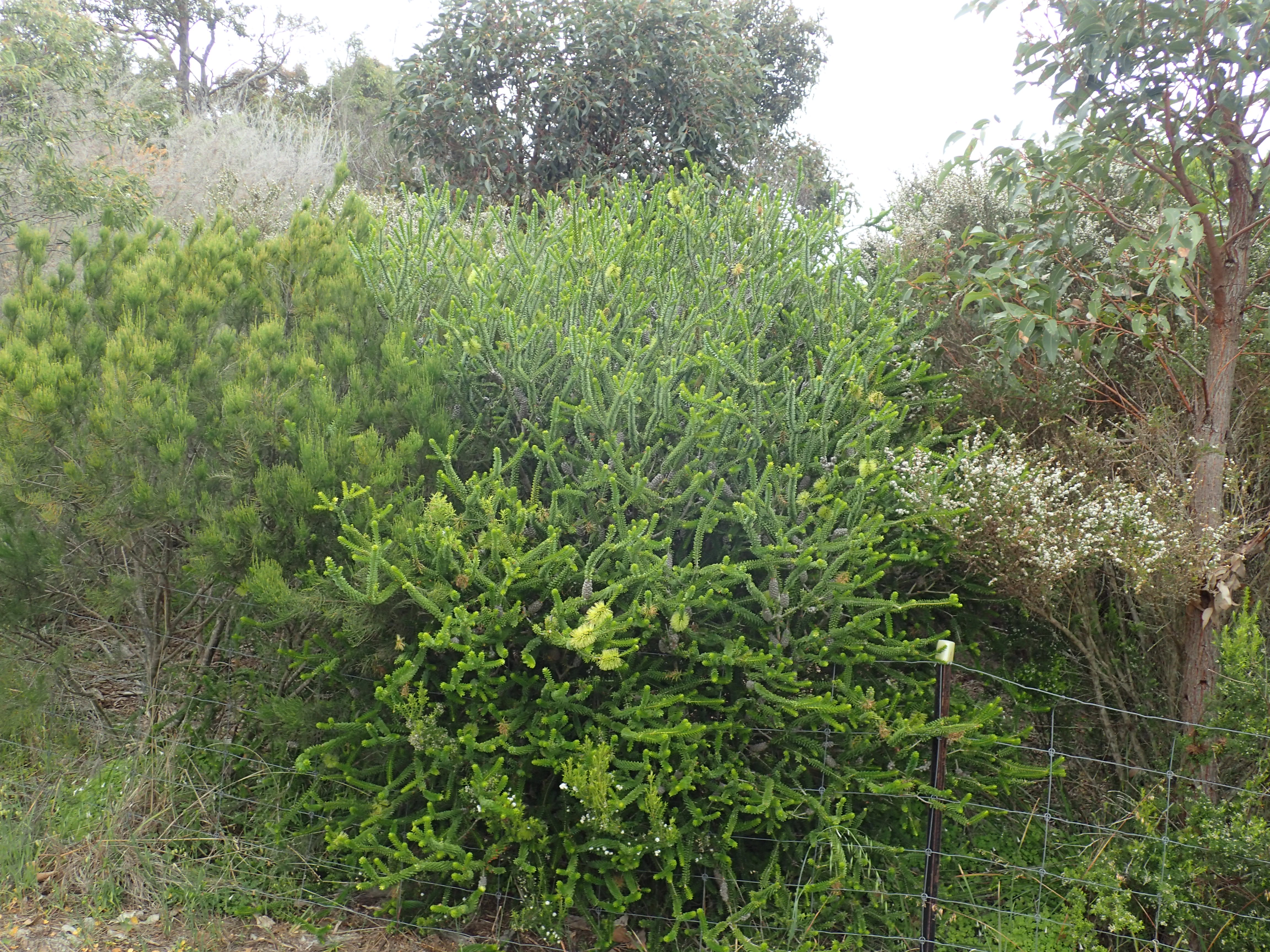 Melaeluca diosmifolia growing on Mount Melville in Albany, W.A.